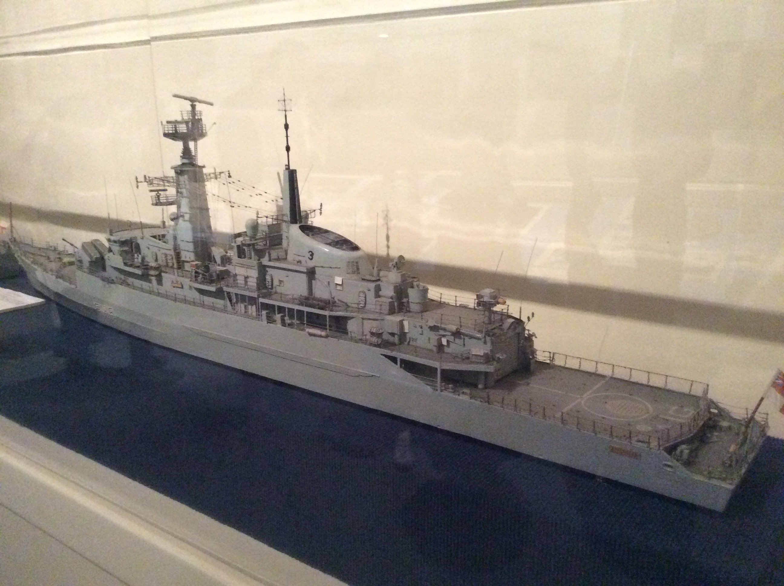 Malta Maritime Museum in Birgu This media is about Maltese cultural property with inventory number 01507.